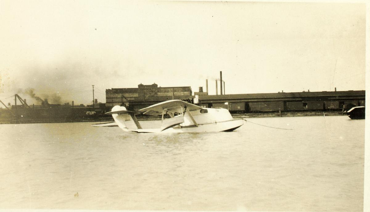 Loeing S.1 Air Yacht.